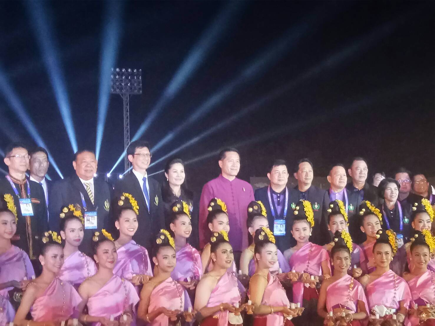 Weerasak Kowsurat Thailand Ministry of Tourism and Sports At 36th Thailand Para National Games.